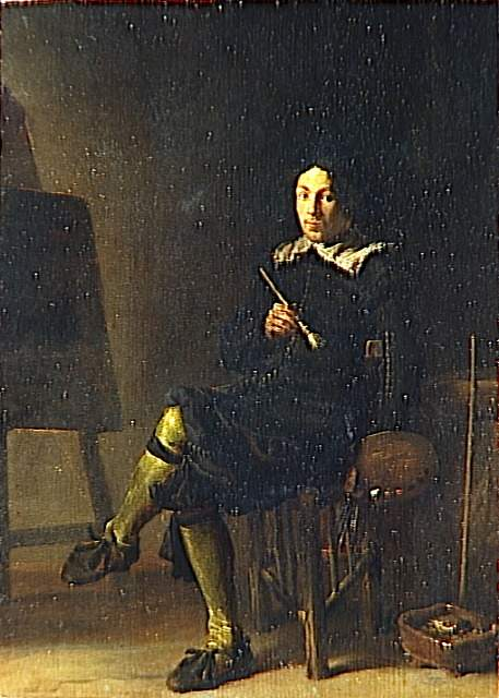 Self-portrait with easel